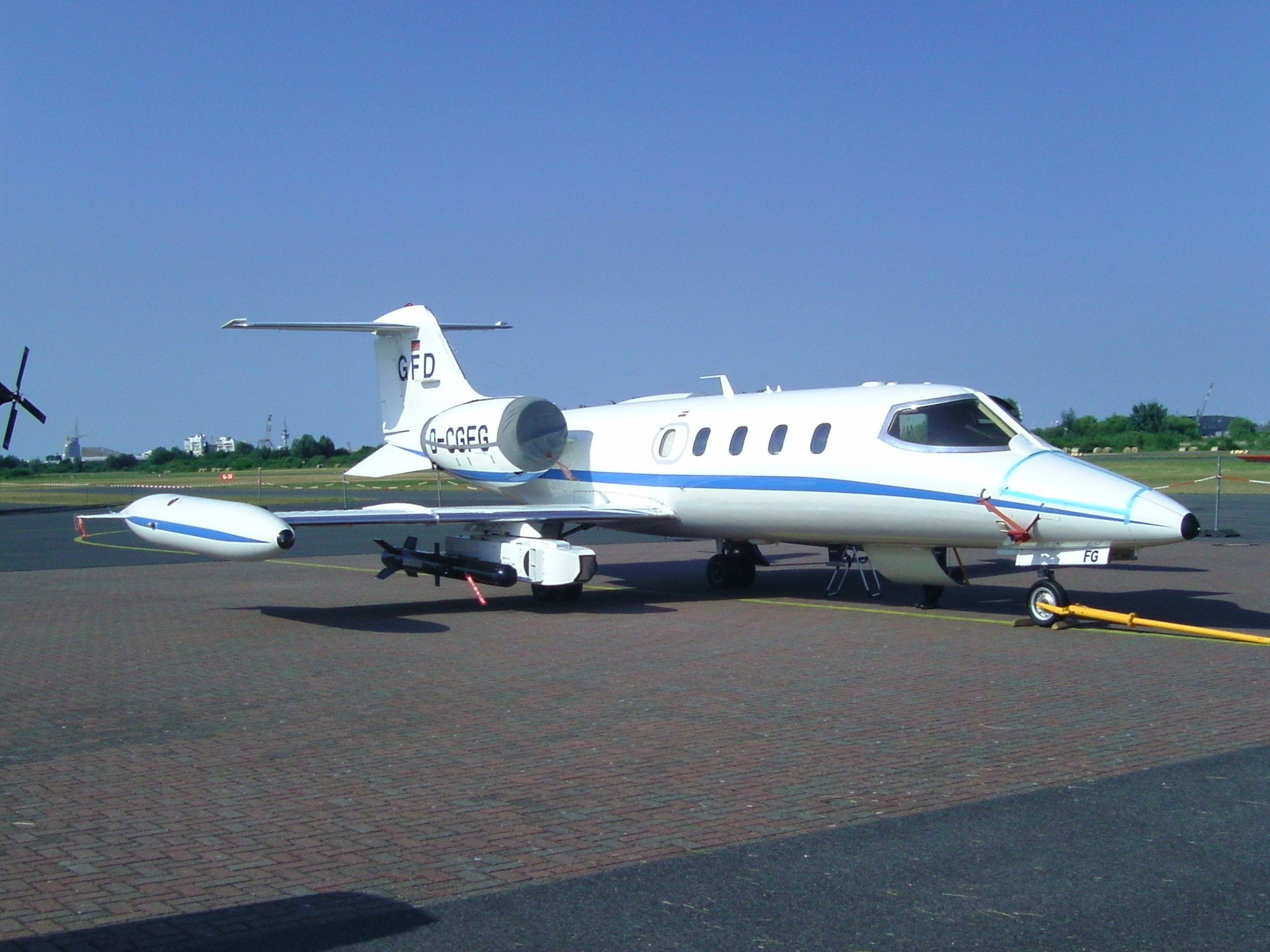 A Learjet with registration D-CGFG of the German company GFD, a company for aerial target towing